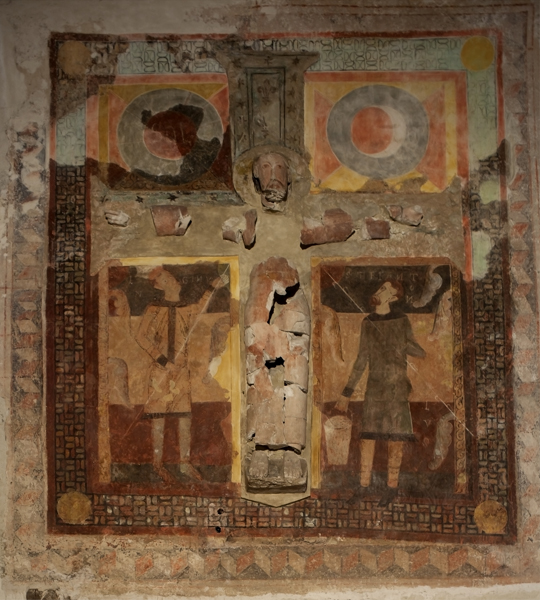 una imagen en estuco de grandes dimensiones del Cristo en Majestad, enmarcada por un mural con pinturas al fresco que describen escenas del Calvario, obras del siglo XII